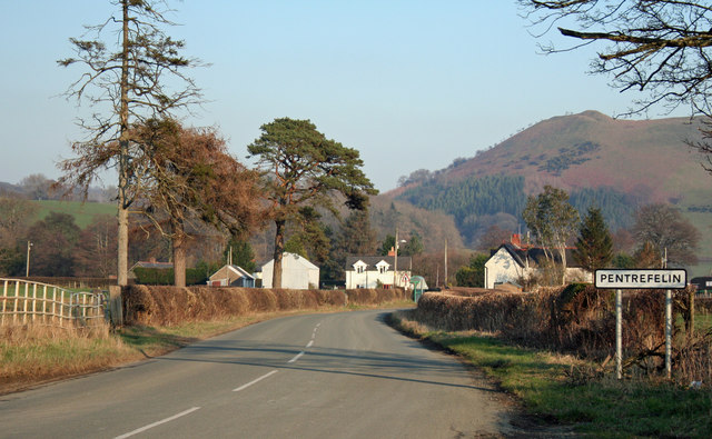 White Houses Towards Pentrefelin hamlet East along the B4396.